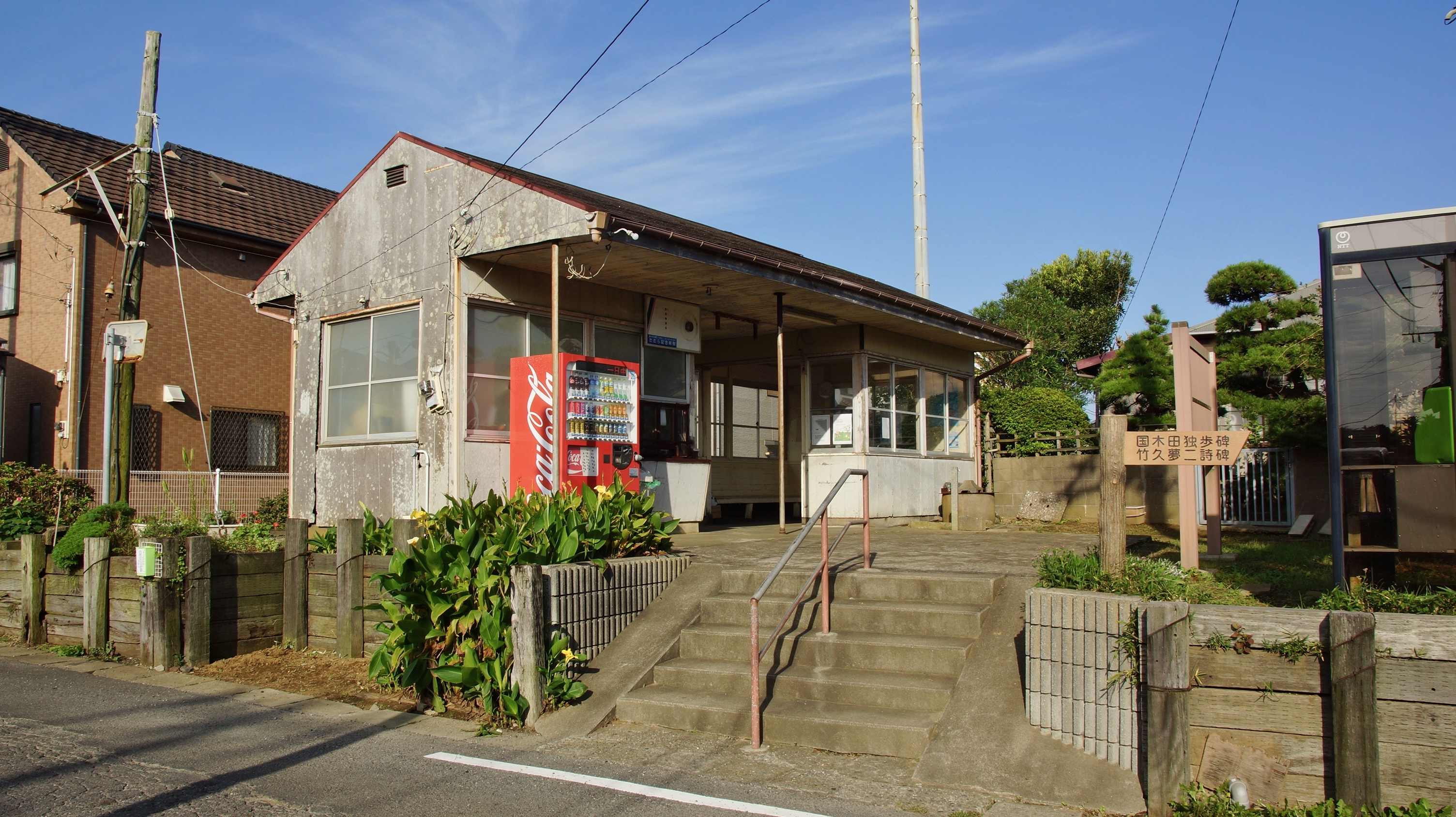 The entrance to Ashikajima Station on the Choshi Electric Railway in Chiba Prefecture, Japan